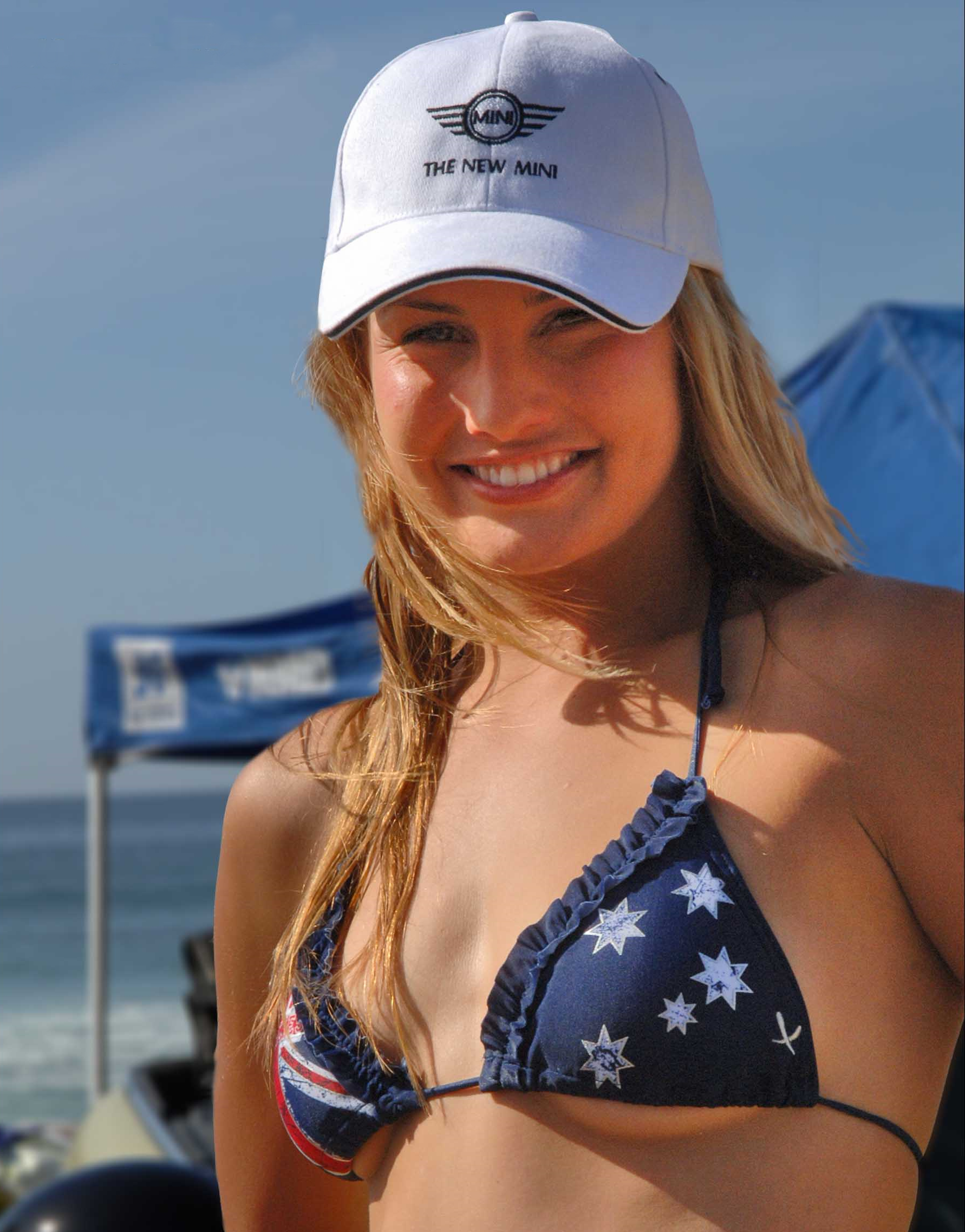 Australian world-champion water skier Lauryn Eagle at Cronulla Beach, Cronulla, New South Wales, Australia, wearing a cap and a bikini with the Australian flag for the launch of the Mini Cabrio.